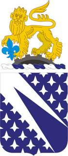 From the US Army TIOH